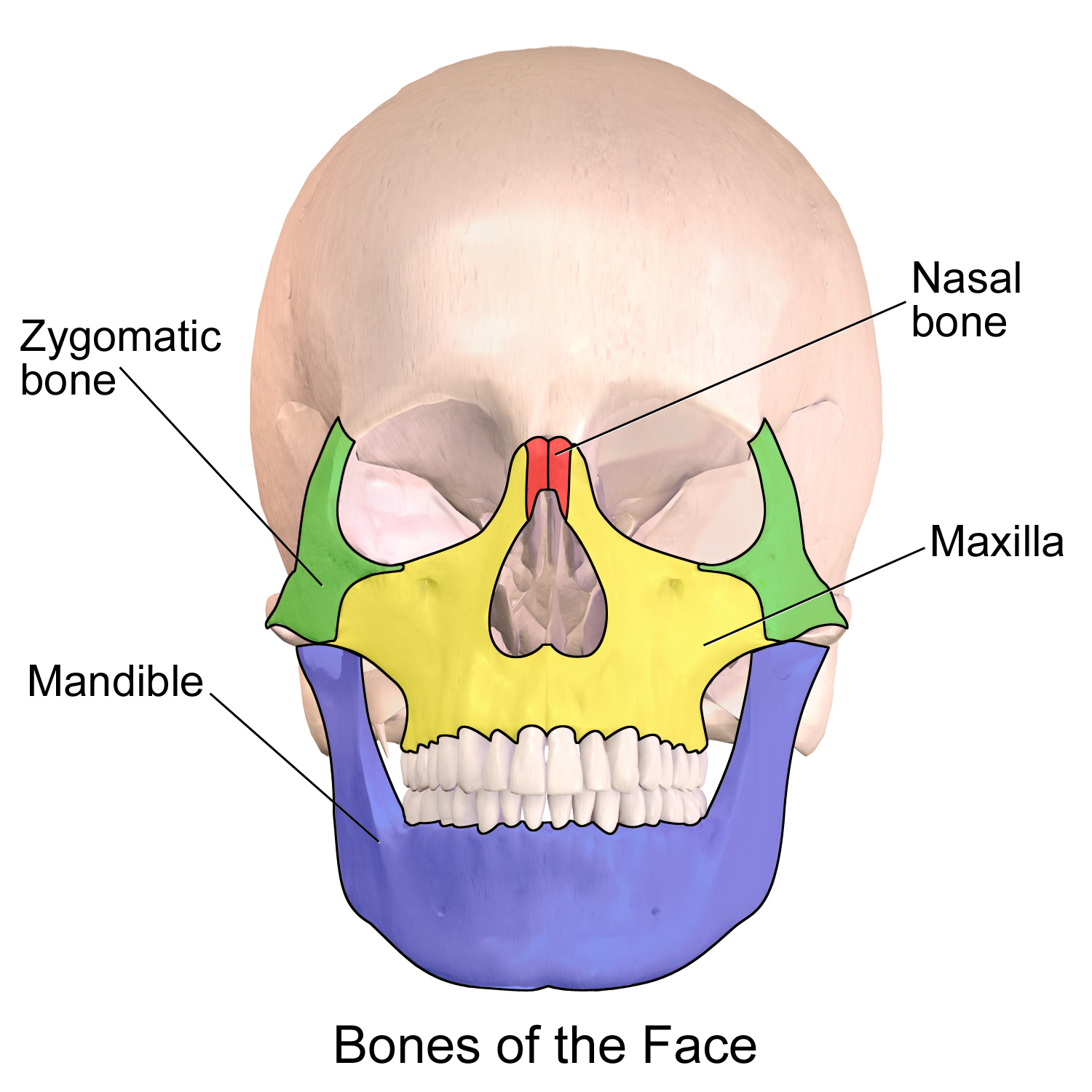 Facial Bones. See a full animation of this medical topic.